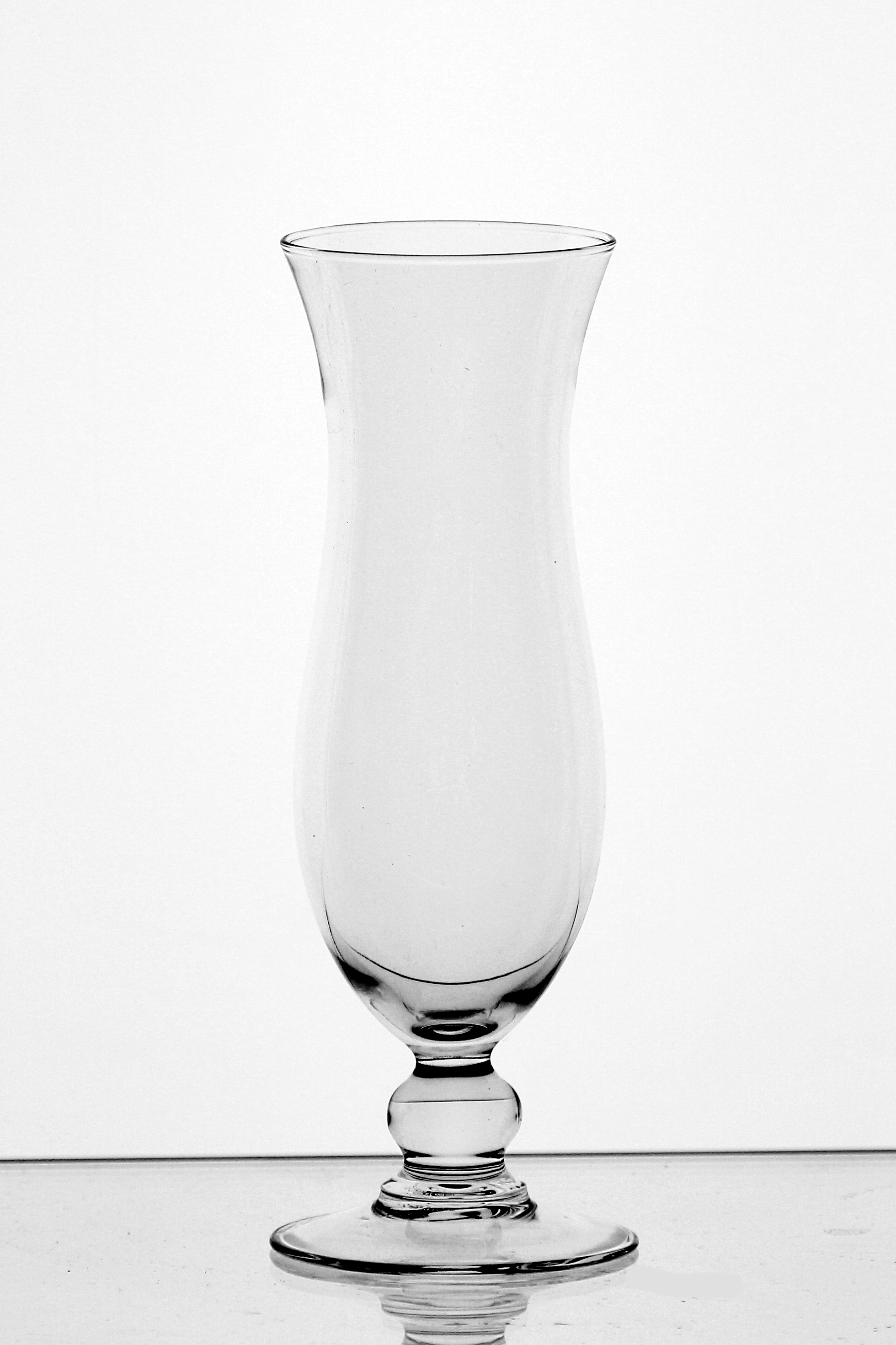 Cocktail glass - hurricaneglas